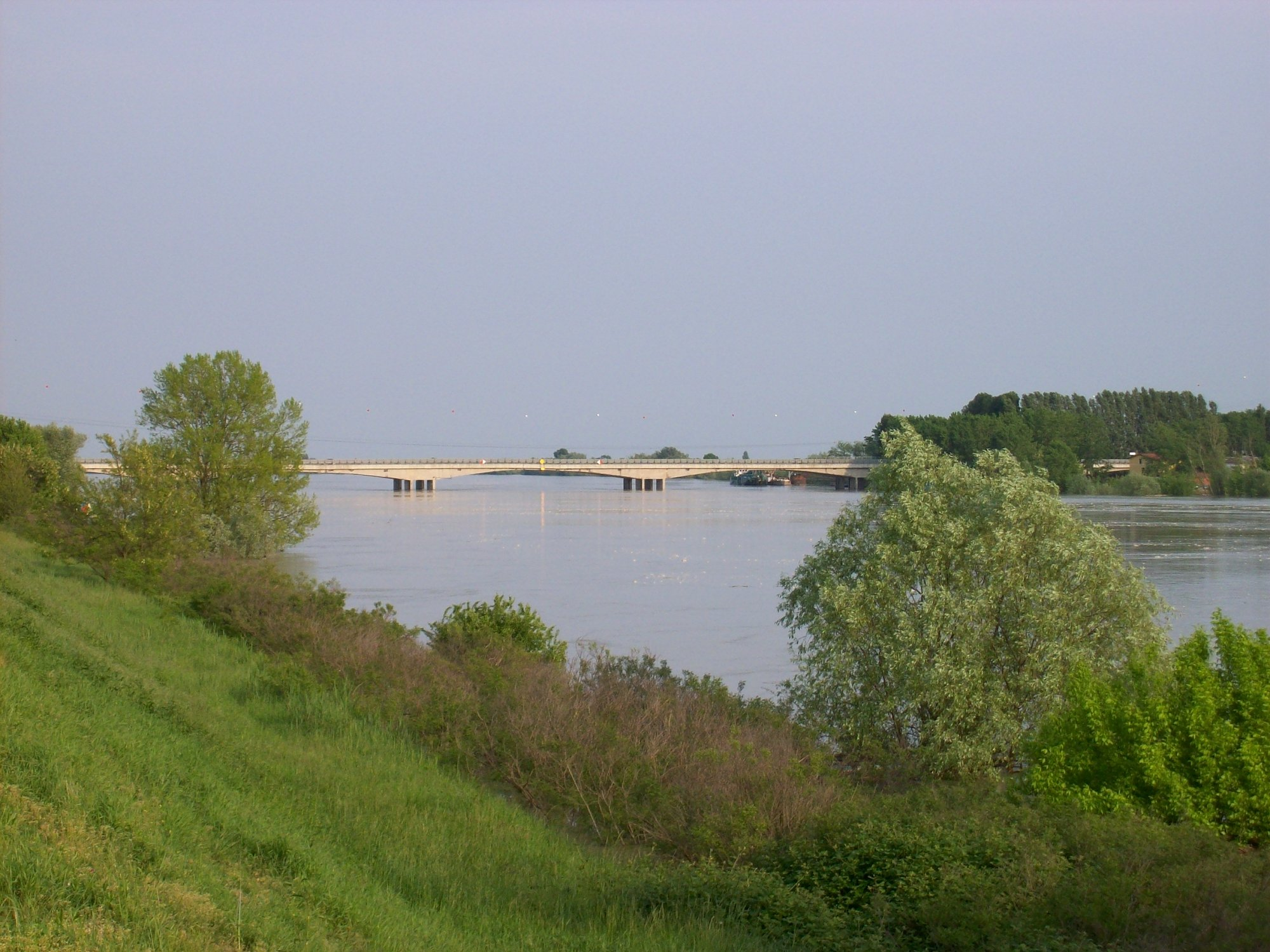 The Po River near to San Benedetto Po (Province of Mantua, Italy)